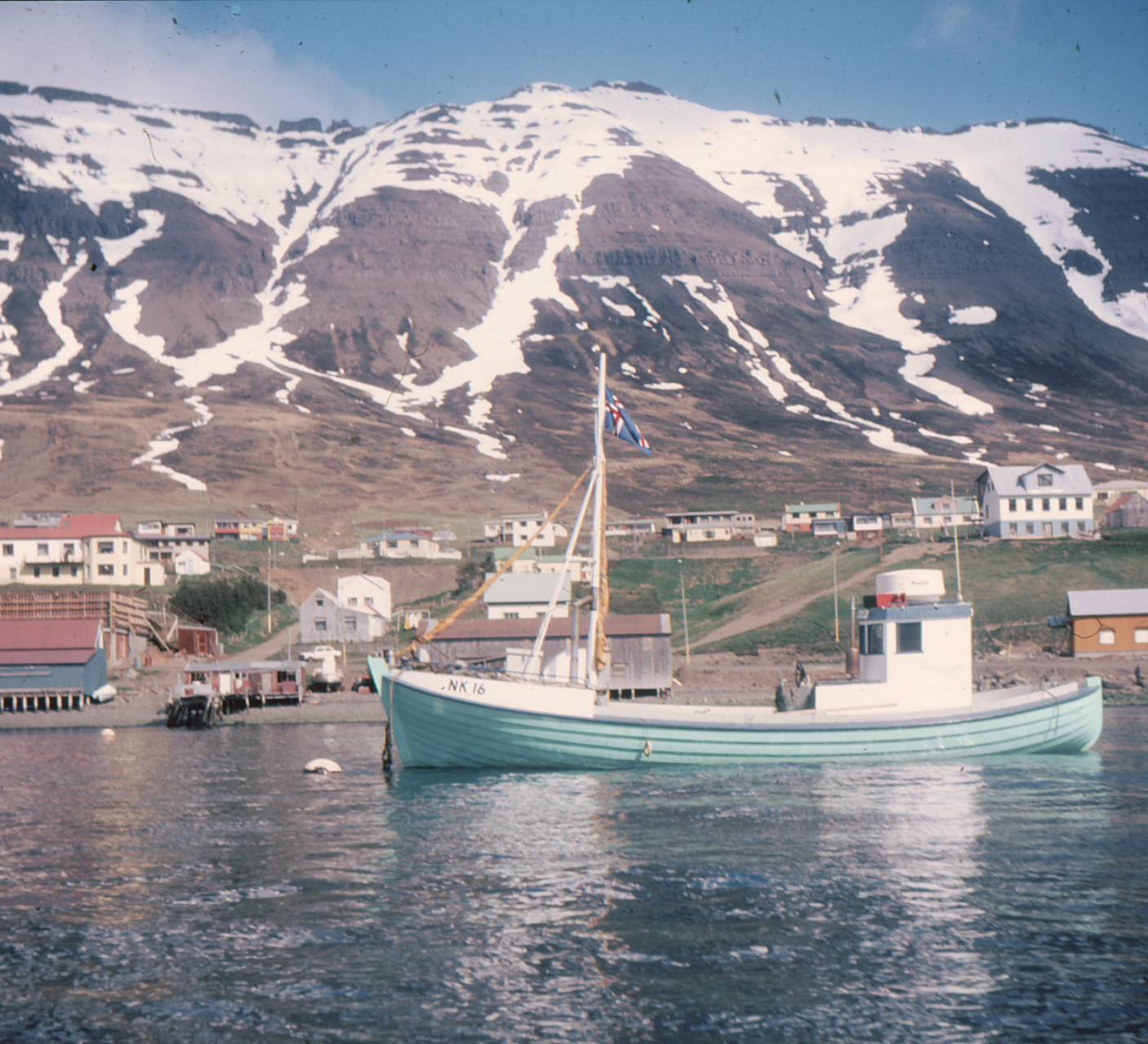 Veidibjallan NK 16